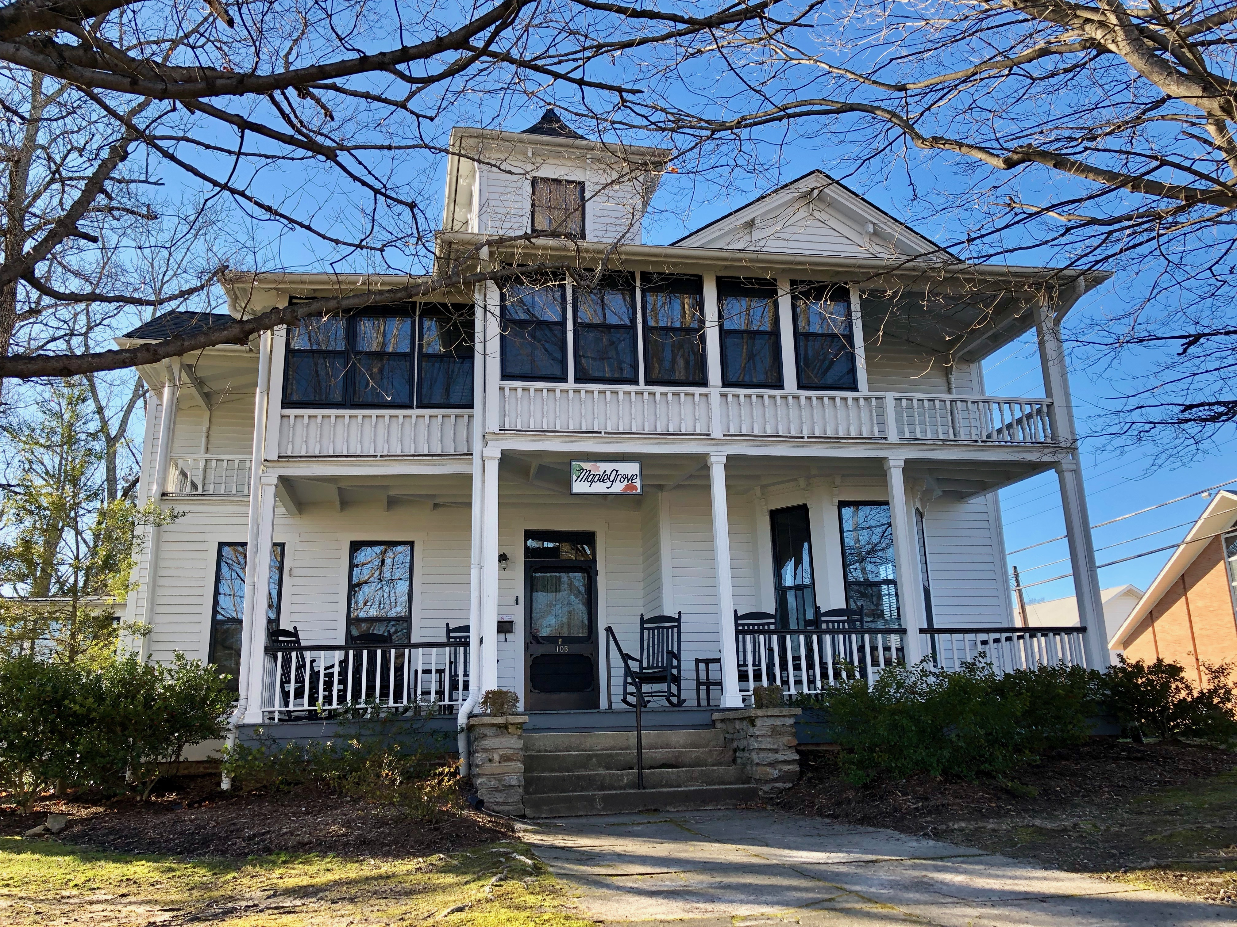 The King-Waldrop House in Hendersonville, NC, constructed circa 1881 and listed on the National Register of Historic Places in 1989